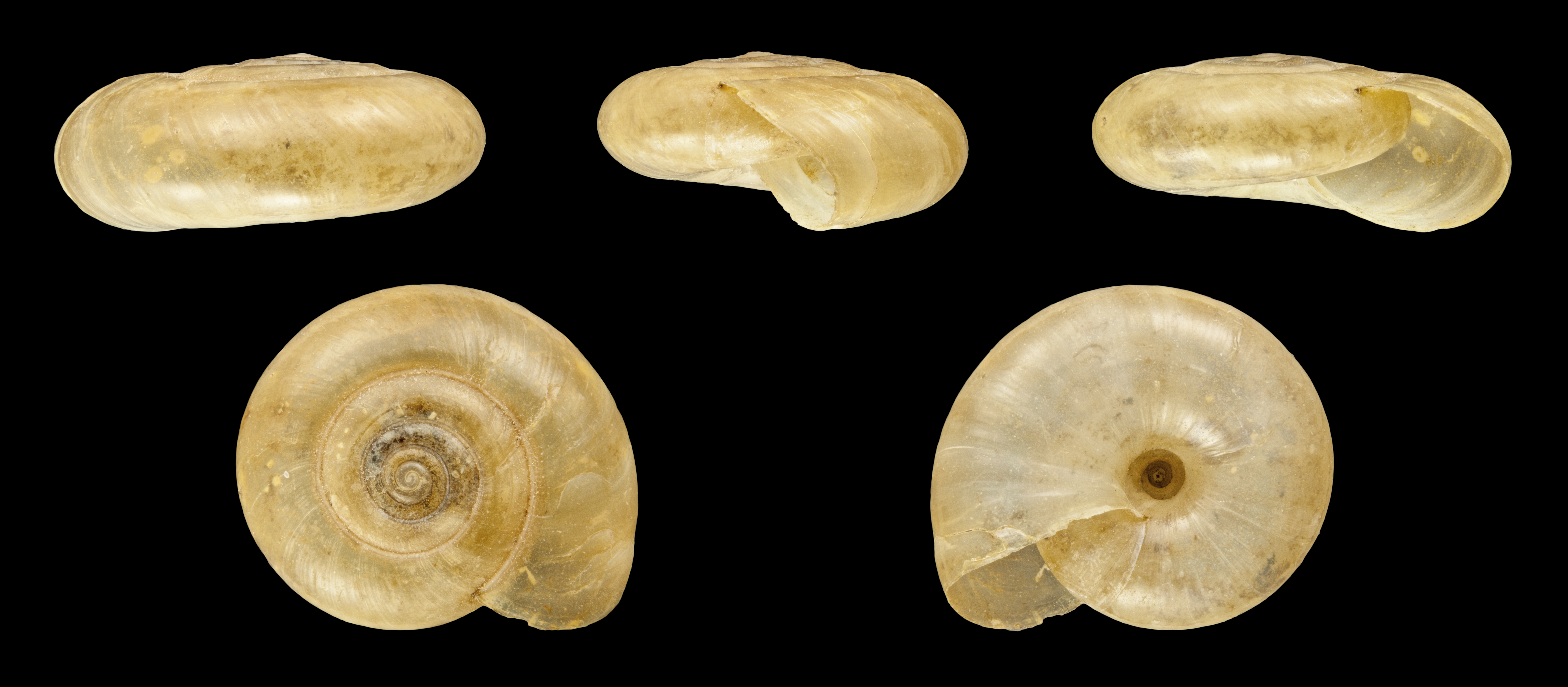 Oxychilus draparnaudi (Beck, 1837); Diameter 1.3 cm; Originating from Rappenwörth, Karlsruhe, Germany. Shell of own collection, therefore not geocoded.